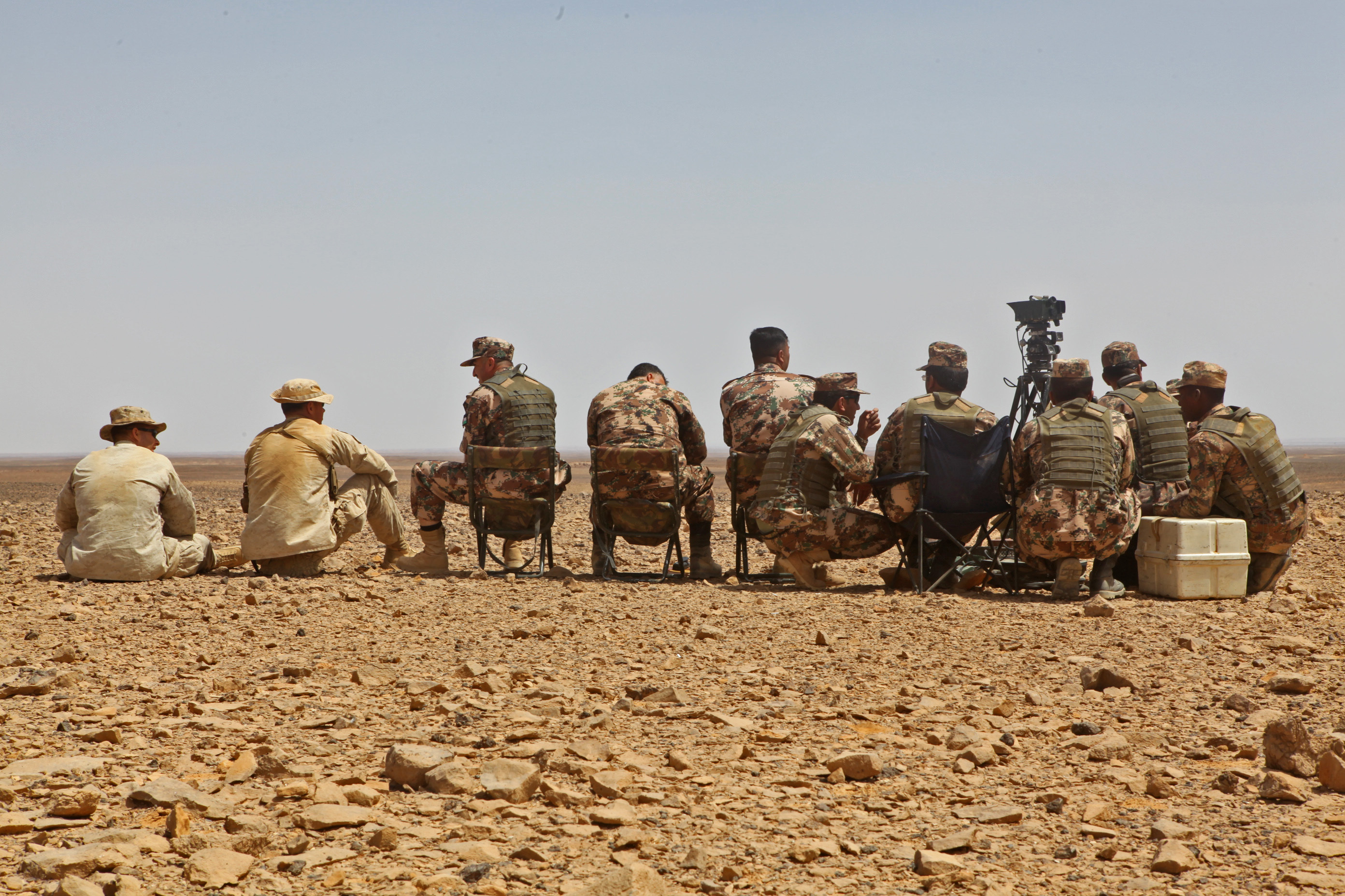 Forward observers from the Jordanian Army and Marines with Weapons Company, Battalion Landing Team 1st Battalion, 2nd Marine Regiment, 24th Marine Expeditionary Unit, discuss the indirect fire plan for the counterattack scenario for Exercise Eager Lion 12 here, May 23, 2012. Eager Lion 12 is taking place throughout the month of May and is designed to strengthen military-to-military relationships of over 19 participating partner nations. This is the second major exercise for the 24th MEU who, along with the Iwo Jima Amphibious Ready Group, is currently deployed to the U.S Central Command area of operations as a theater security and crisis response force.